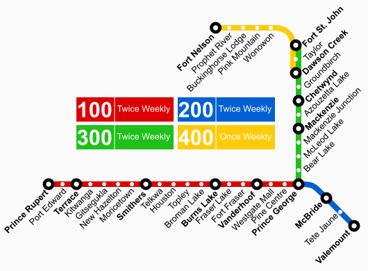 Route Schematic of BC Bus North Routing as of September 20th, 2019.